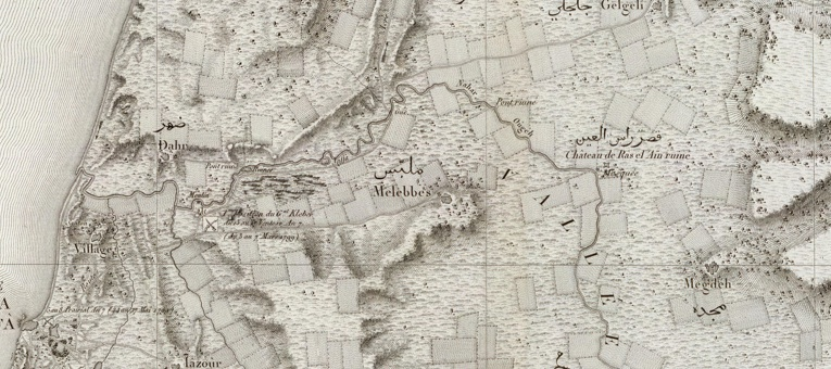 Portion of map of Pierre Jacotin of northern Palestine, prepared during French military expedition of 1799 and published in 1826. Full name: Carte topographique de l'Egypte et de plusieurs parties des pays limitrophes ... . David Rumsey Collection